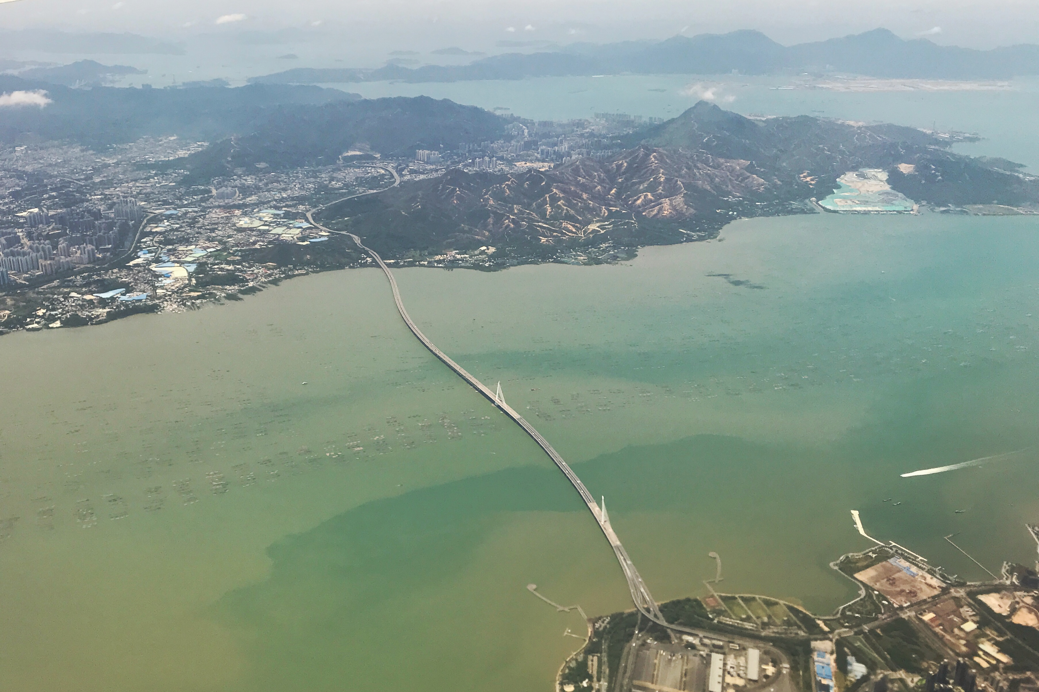 Aerial view of Shenzhen Bay Bridge